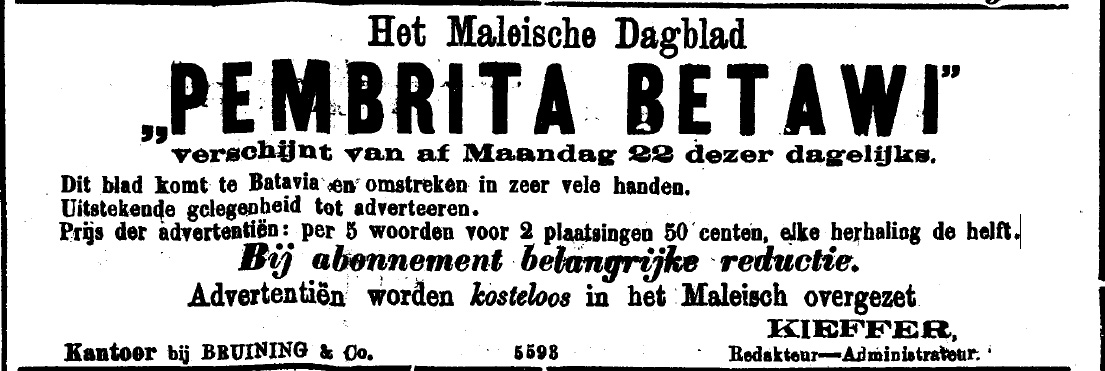 Advertisement for the Malay-language newspaper Pembrita Betawi